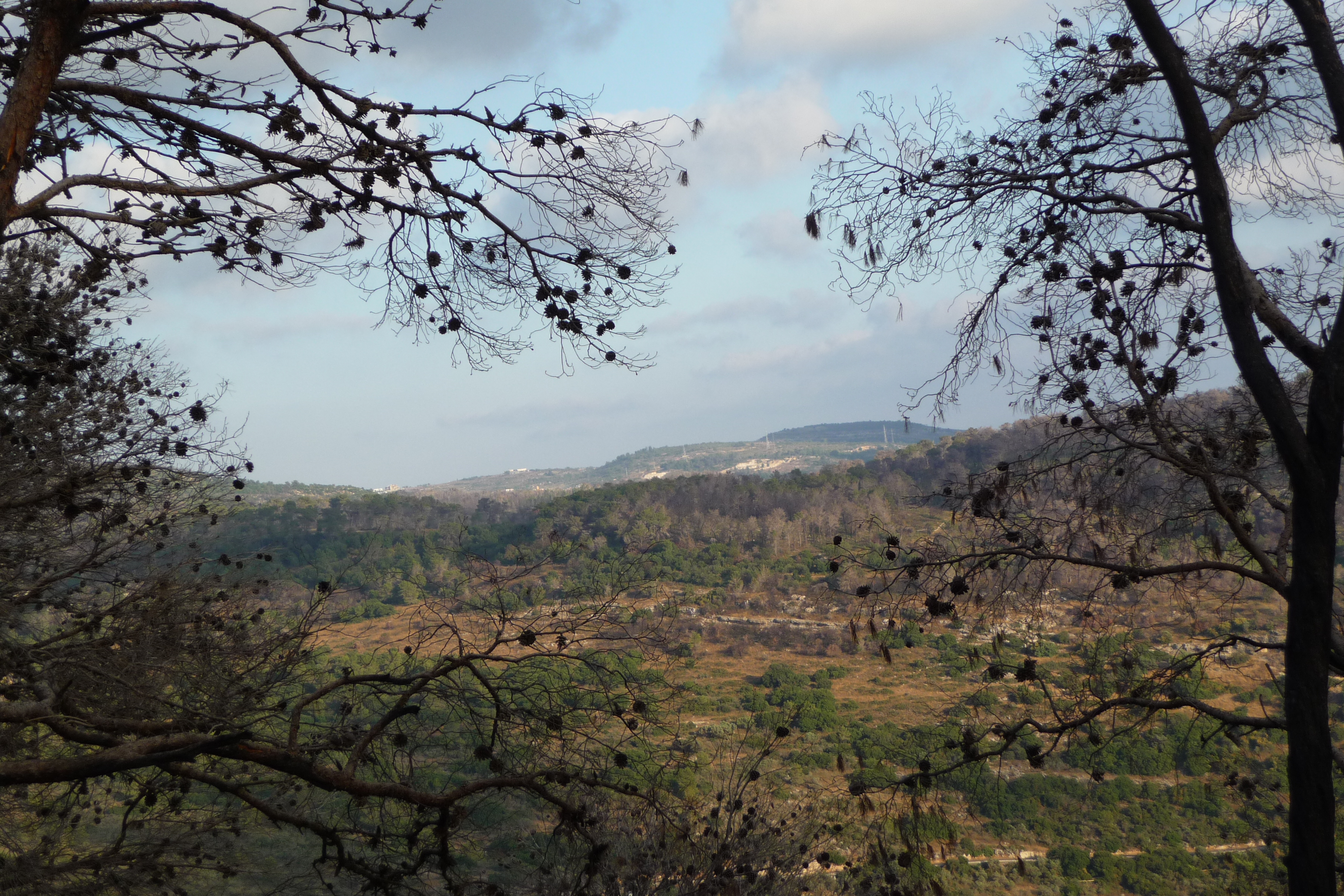 Carmel Park